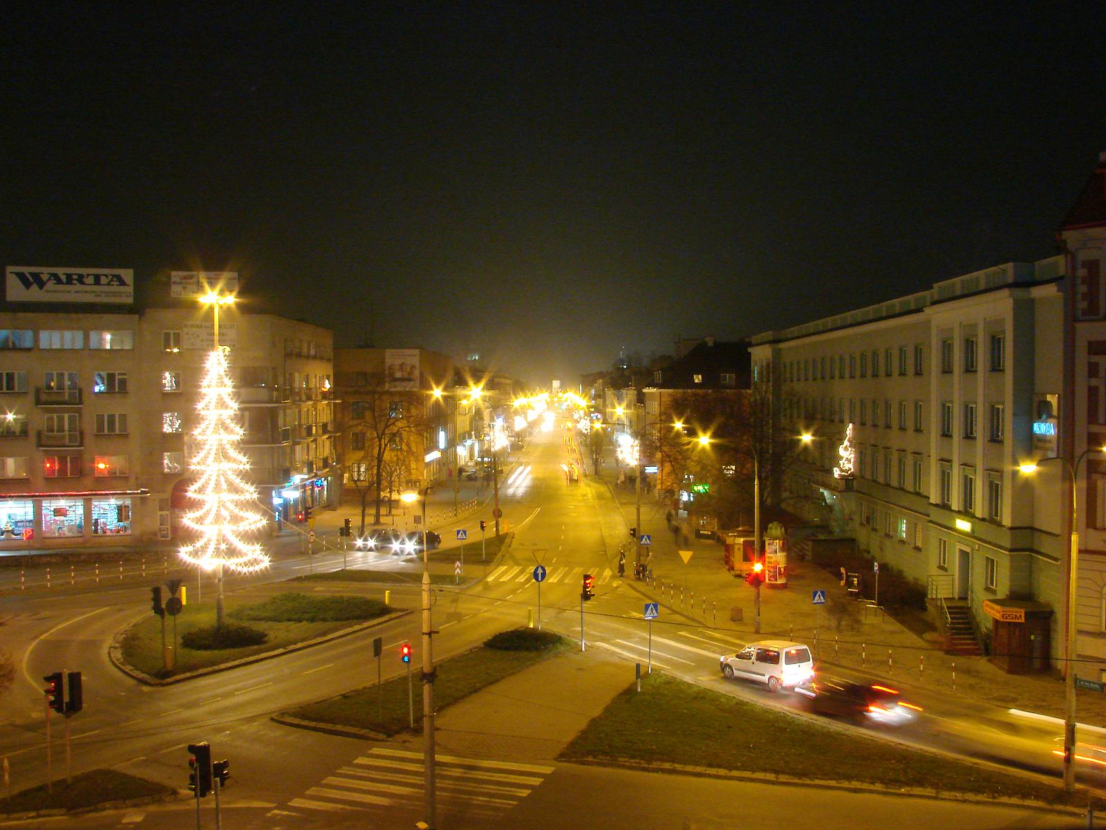 January 2007, ul. Lipowa